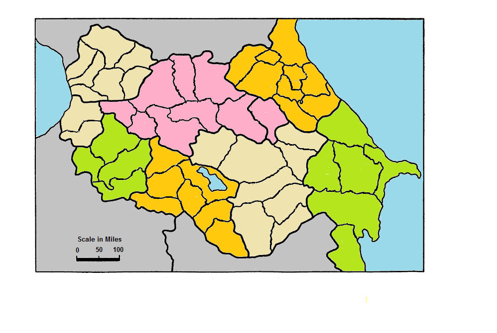 Coloured map of the Provinces/governorates and accompanying districts. The Russian Empire in the Caucasus 19th/20th century.